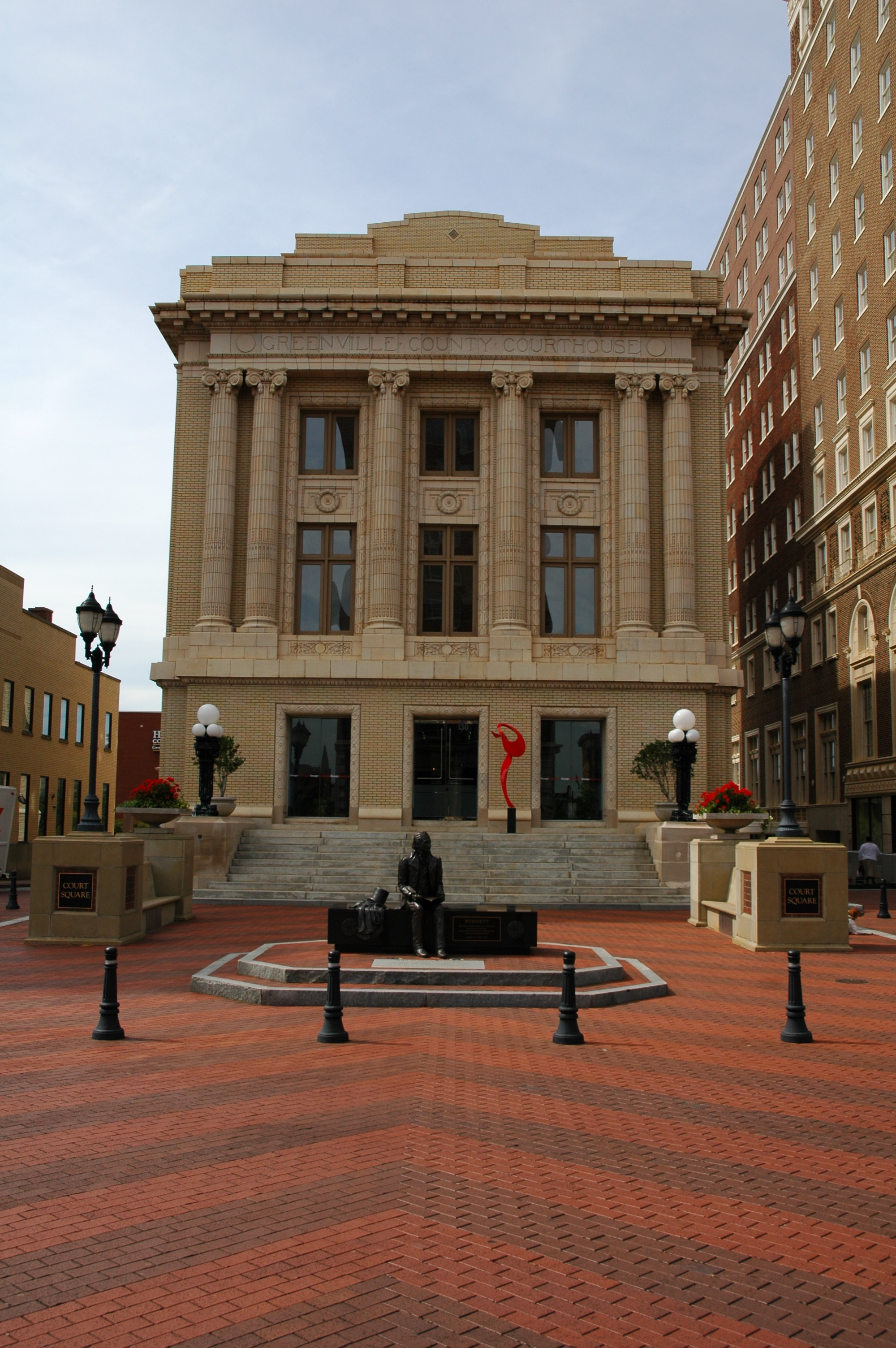 Greenville County Courthouse, at Greenville, South Carolina, United States.